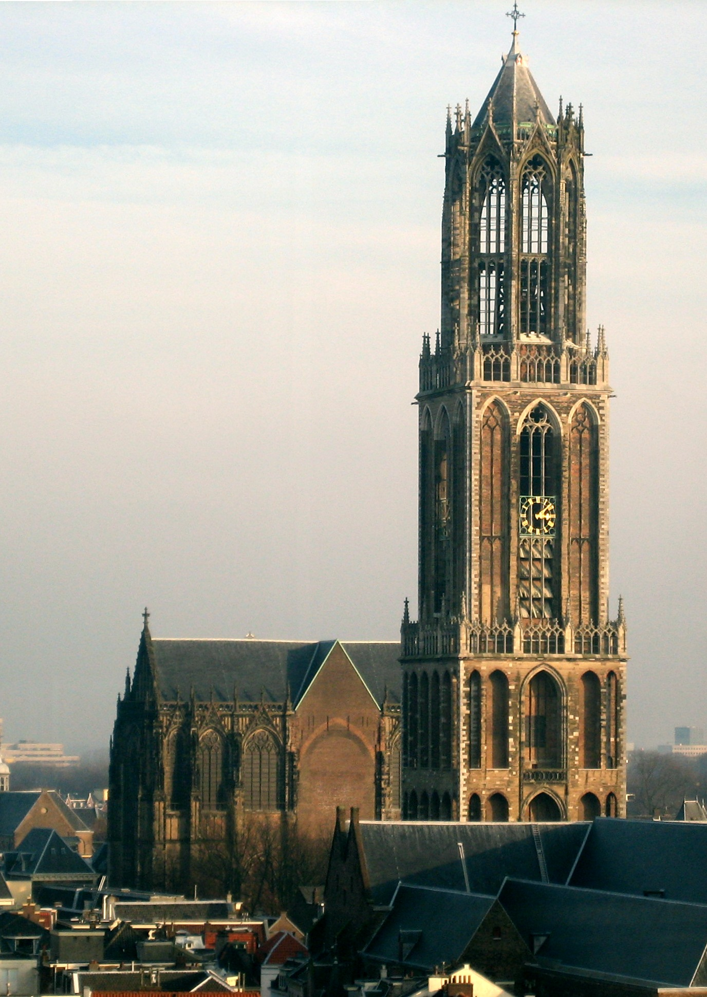 Dom church and tower, Utrecht, The Netherlands